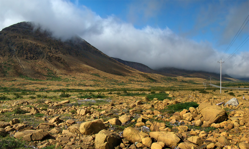 Gros Morne National Park, Western Newfoundland, Canada. The Tablelands seen from Route 431. Just on the other side of the mountains, it was dark grey over the Trout River Pond with the sun completely blocked out, an amazing contrast!